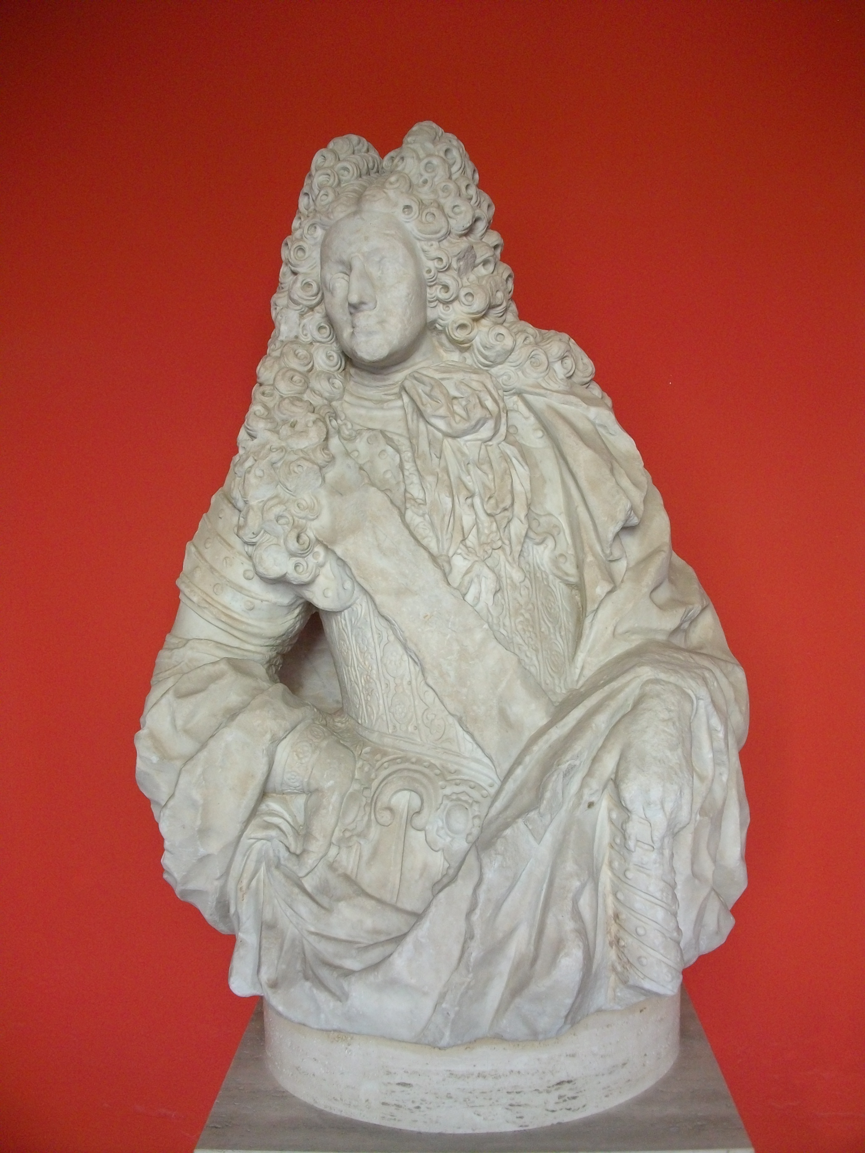 Sculpture of Philip V of Spain